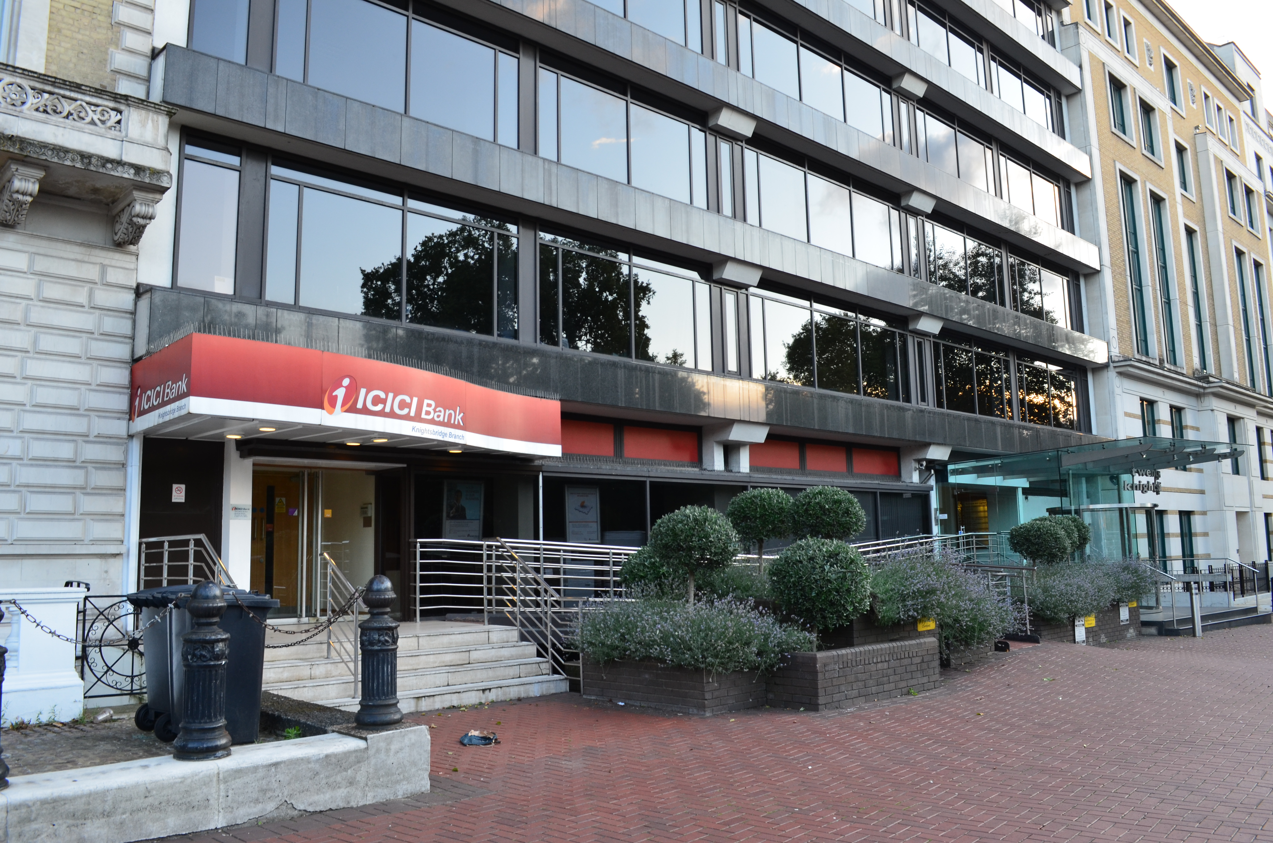 ICICI, an Indian multinational banking and financial services company's branch located in Knightsbridge, London.